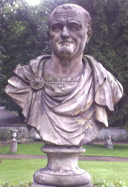 Bust of Vespasian in the Royal Baths Park, Warsaw.